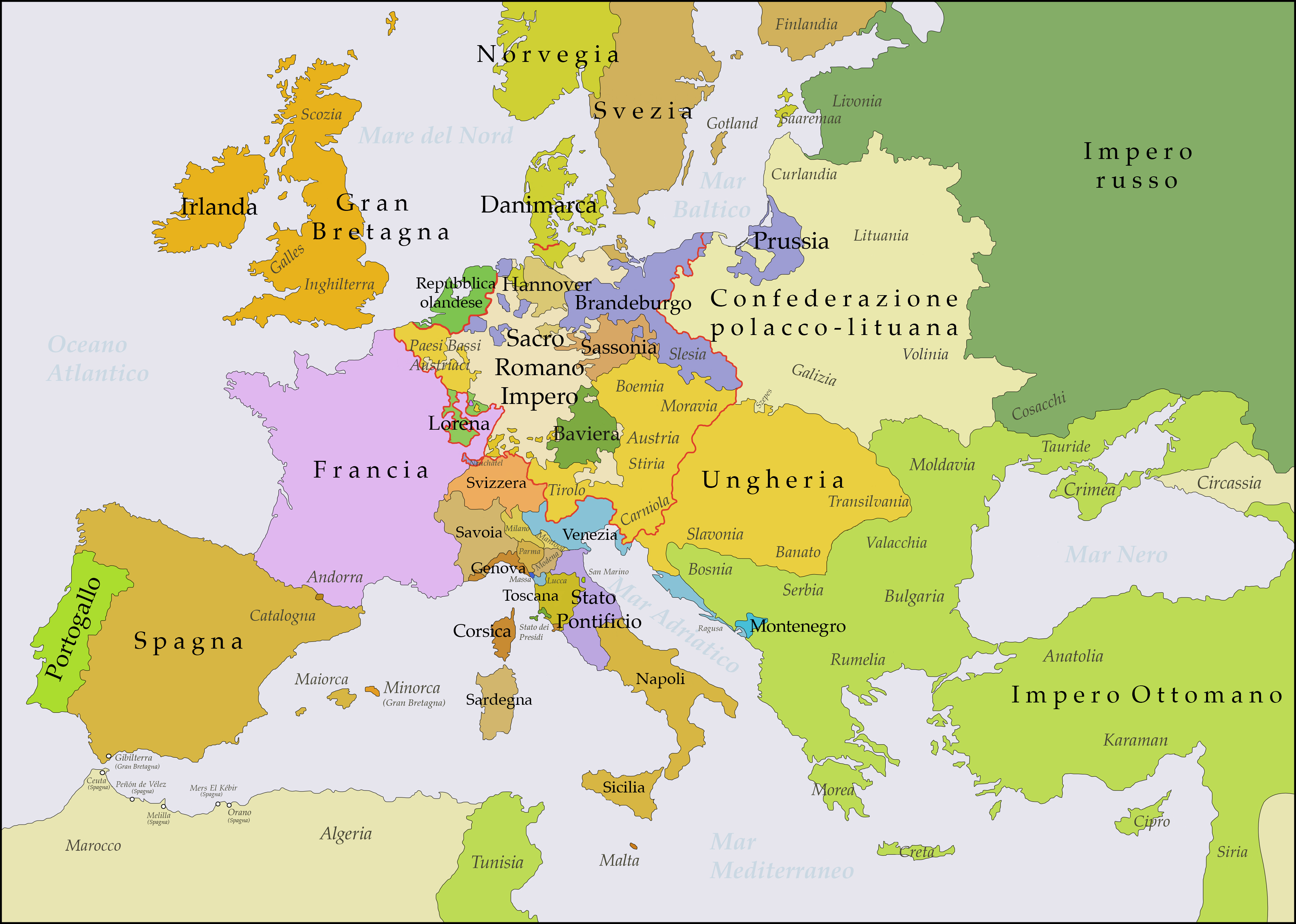 This map shows Europe in the years after the Treaty of Aix-la-Chapelle 1748 and the Seven Years' War (1756-1763). Europe did not see another major geographical change until 1766. The red line marks the borders of the Holy Roman Empire. The work was created with Inkscape and is mainly based on a map in: Putzger - Historischer Weltatlas, Berlin 1990, 78 pp.